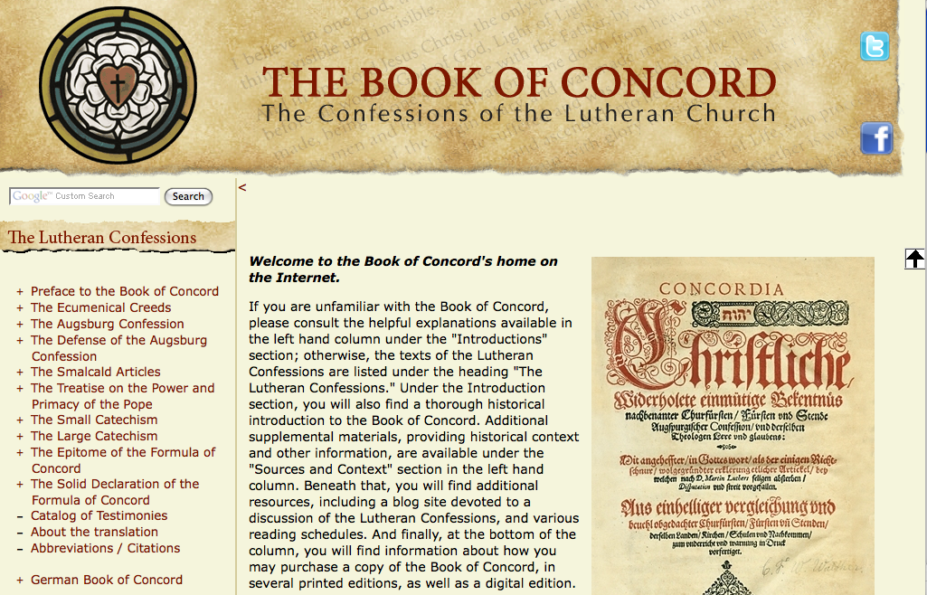 A screen shot of the Web site for the online Book of Concord, the contents of which are all in the public domain.